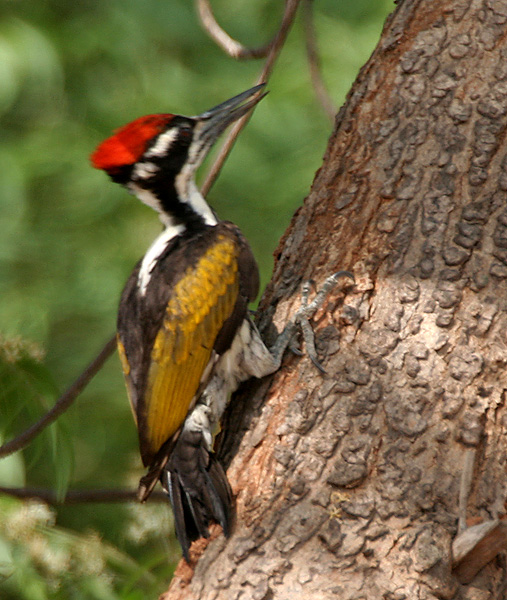 White-naped Woodpecker Chrysocolaptes festivus in Mahavir Harina Vanasthali National Park, Hyderabad, India.